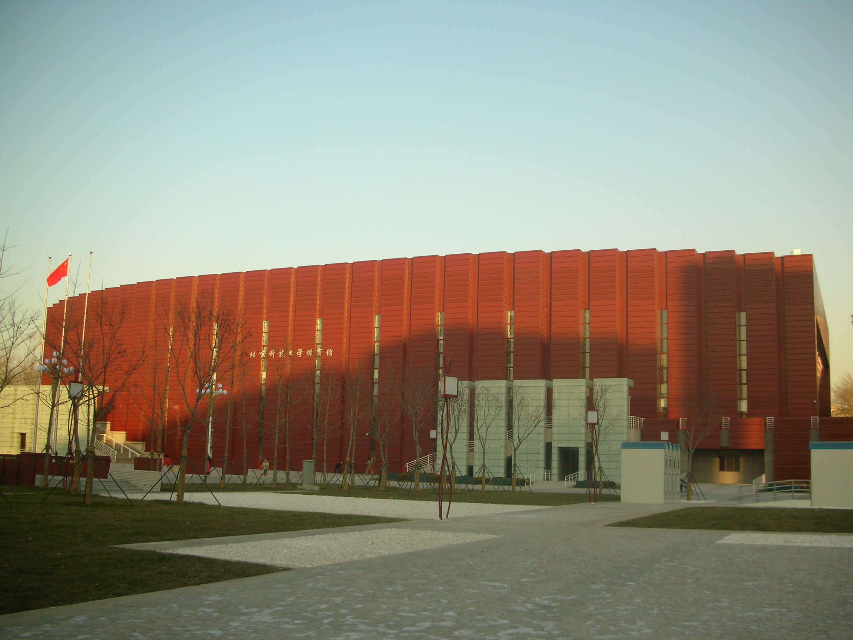 USTB Gym